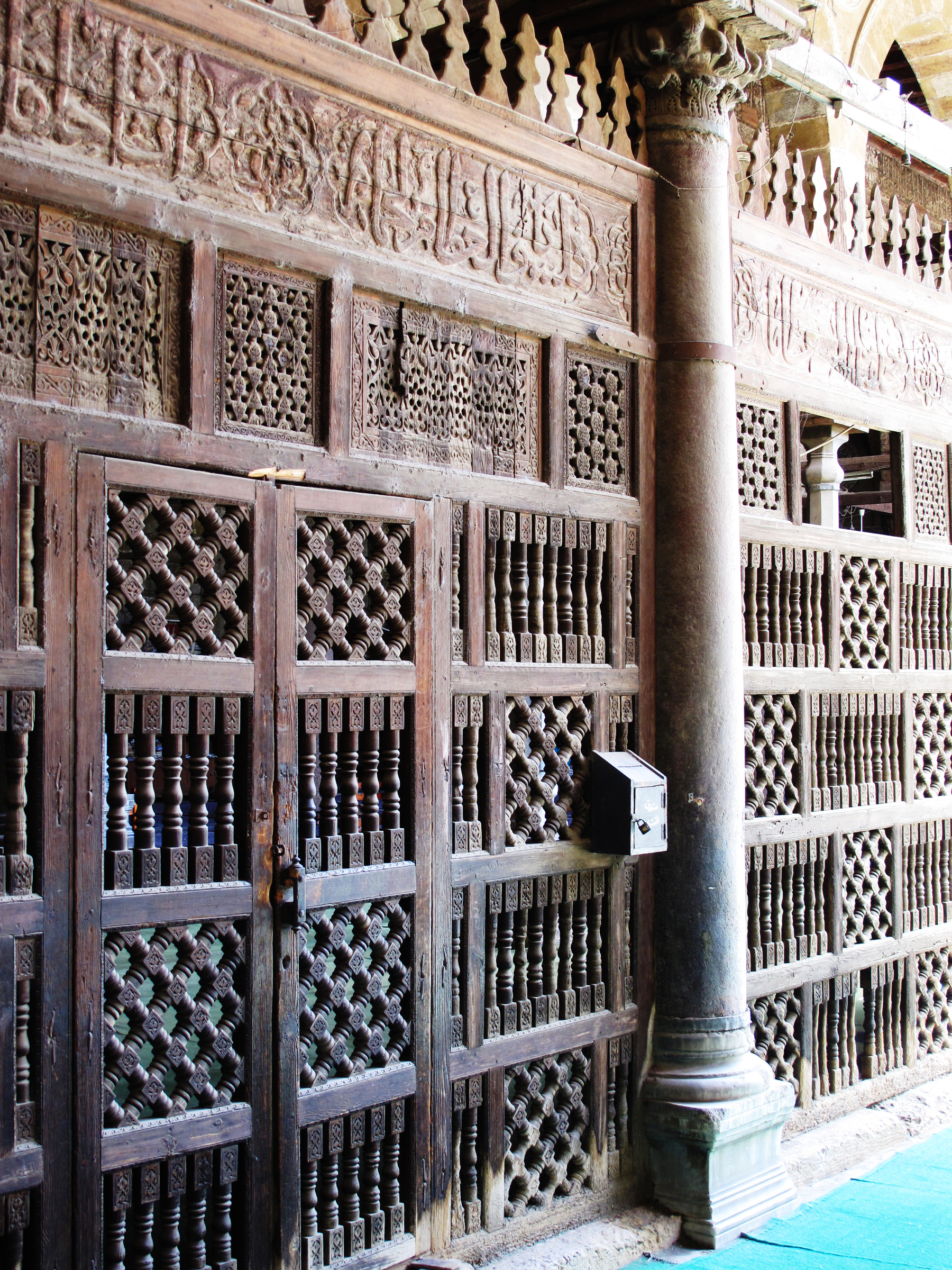 Mashrabiyya of Mosque of Amir al-Maridini